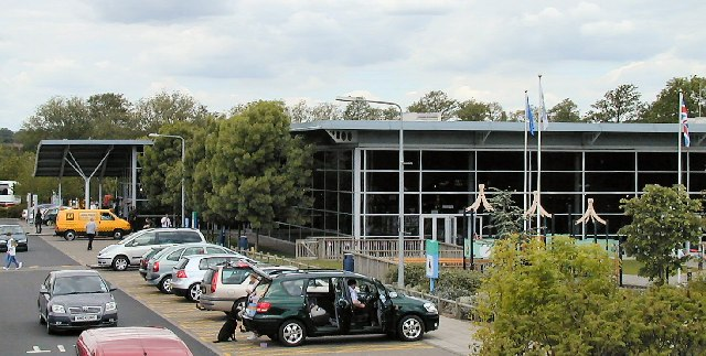 Hopwood Services M42 J2